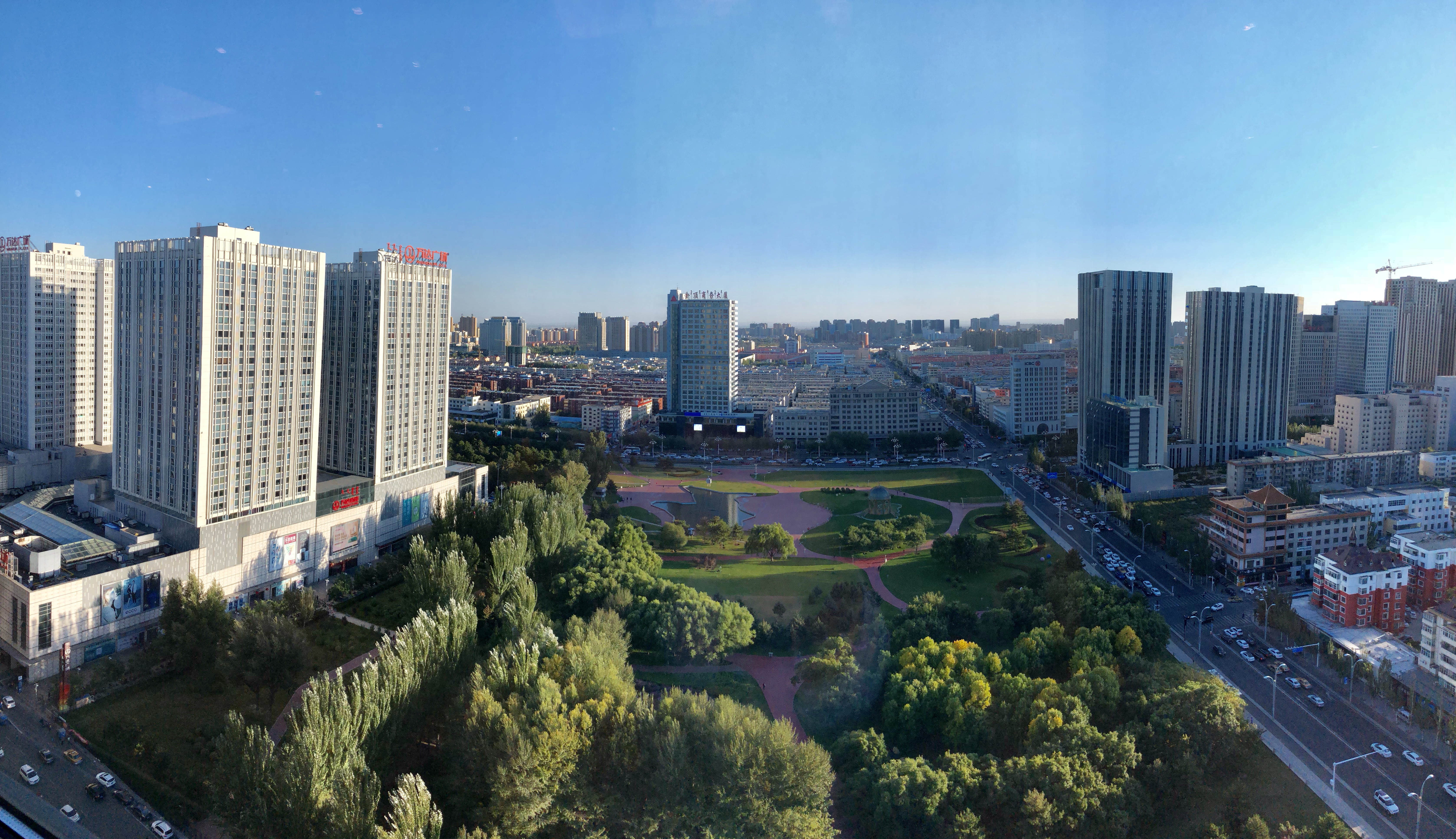 Panorama of Baotou city, Inner Mongolia, taken from the Shangri-La Hotel September 2018